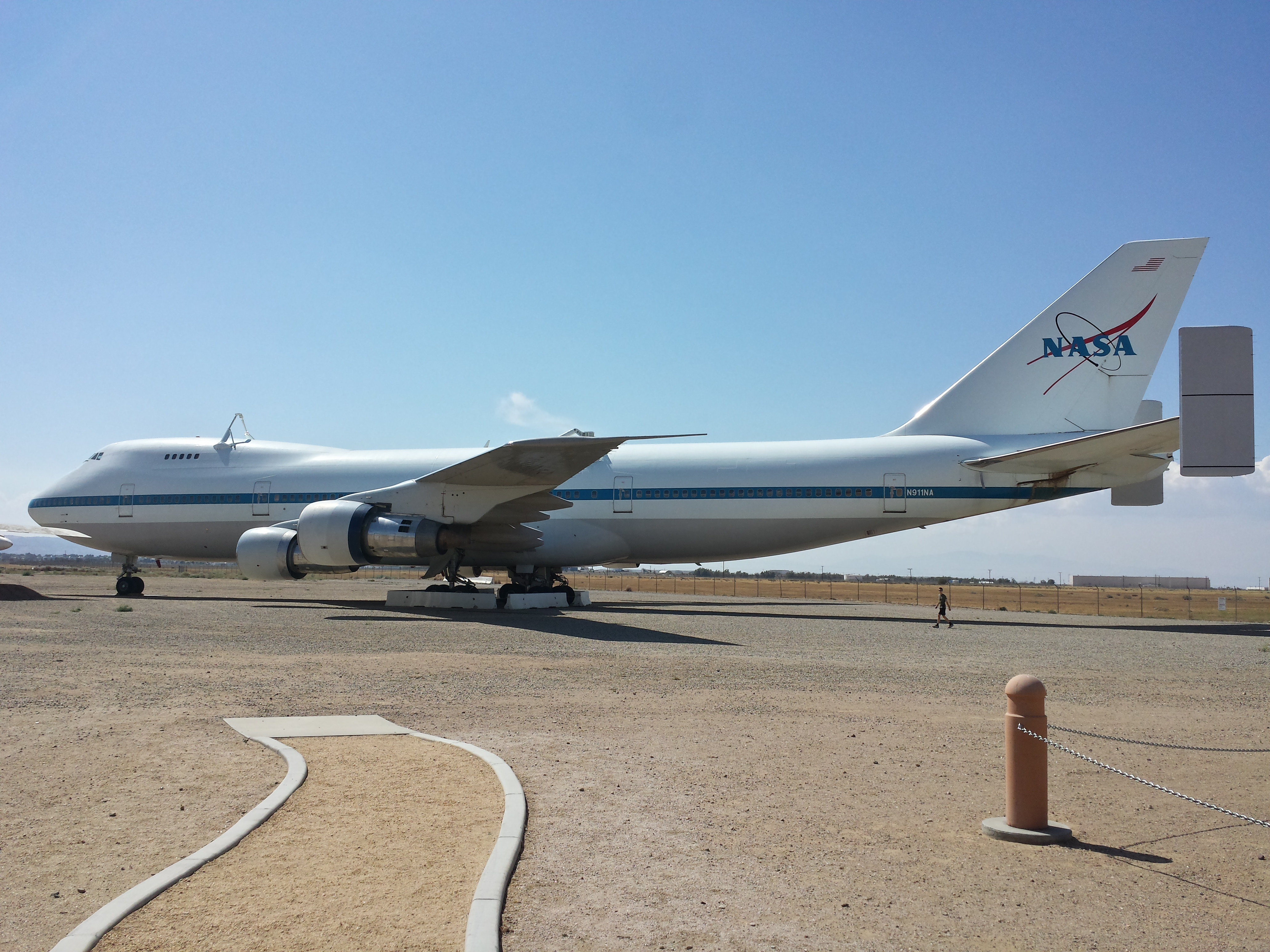 NASA's Shuttle Carrier Aircraft N911NA, one of two, sits on display at the Joe Davies Heritage Airpark in Palmdale, California, in June 2015. The SCA will be used as a source of spare parts for NASA's Stratospheric Observatory for Infrared Astronomy aircraft.